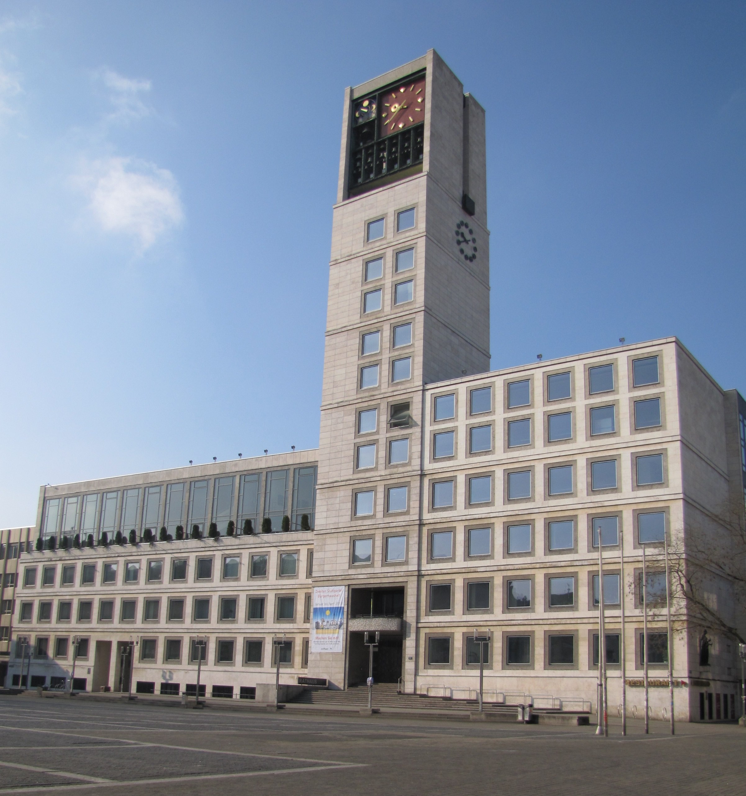 Stuttgarter Rathaus